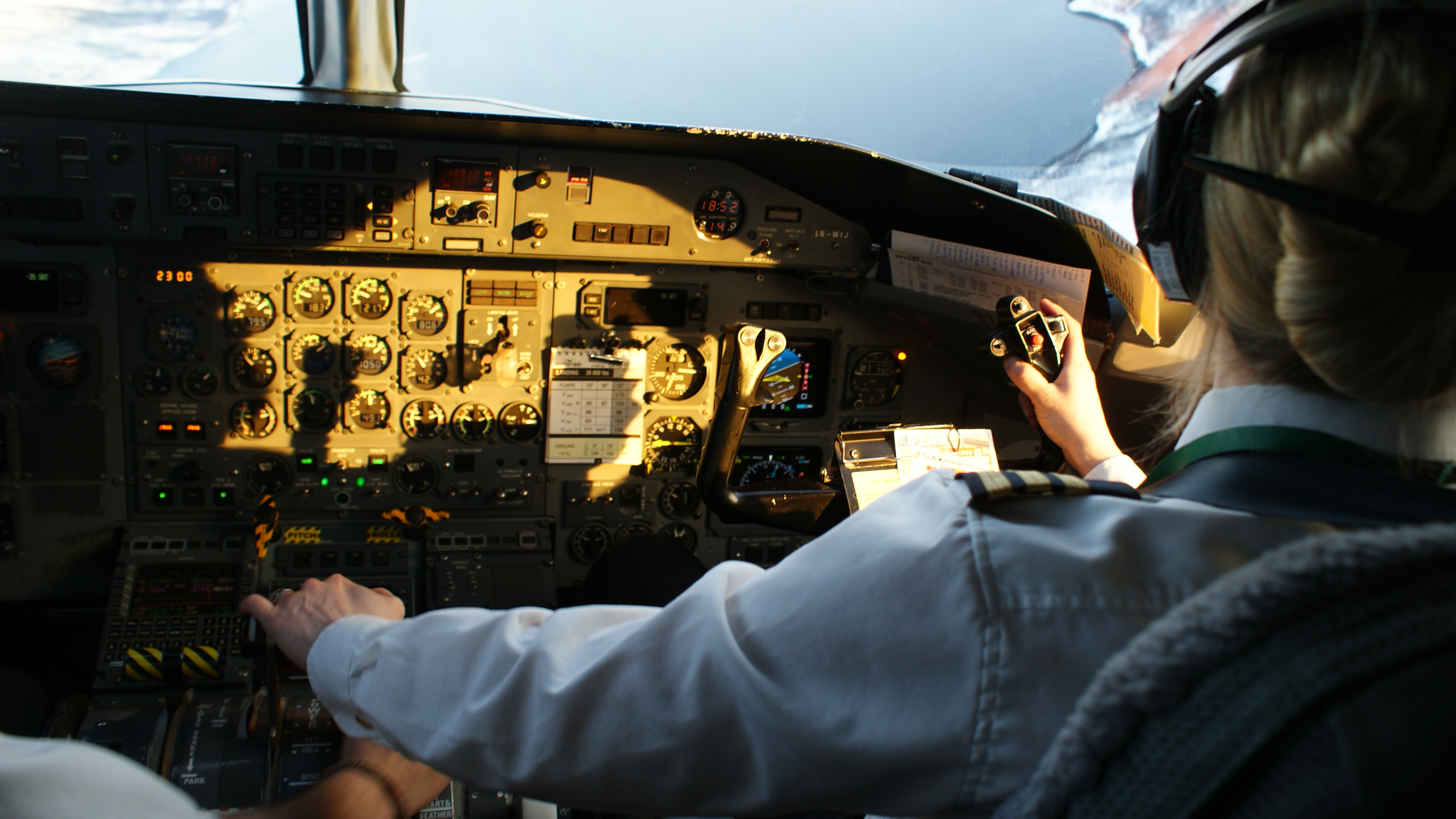 The cockpit of Widerøe de Havilland Canada Dash-8 103. First Officer at the controls during approach to Sørkjosen Airport.